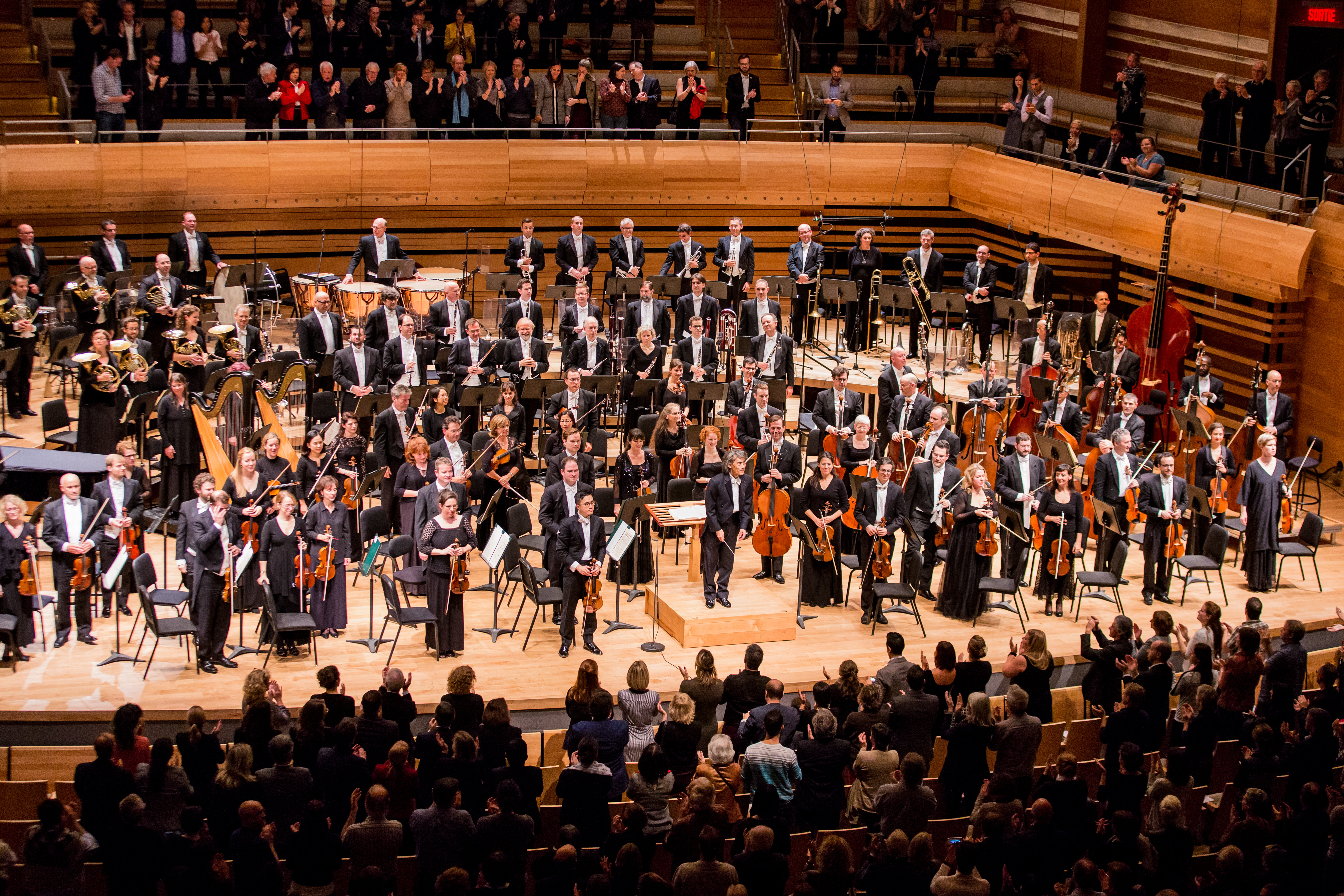 The Montral Symphony Orchestra under Kent Nagano after a concert featuring the orchestra's octobass.